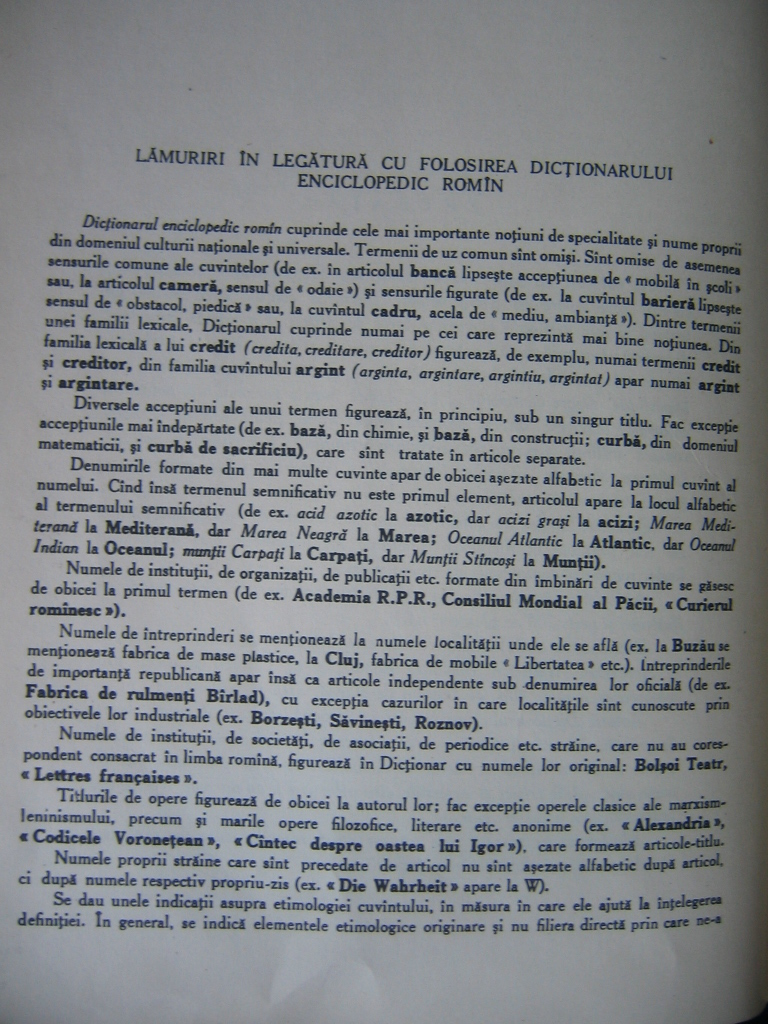 Text/images from Dicționar enciclopedic român (Romanian encyclopedia) (1962-1966)